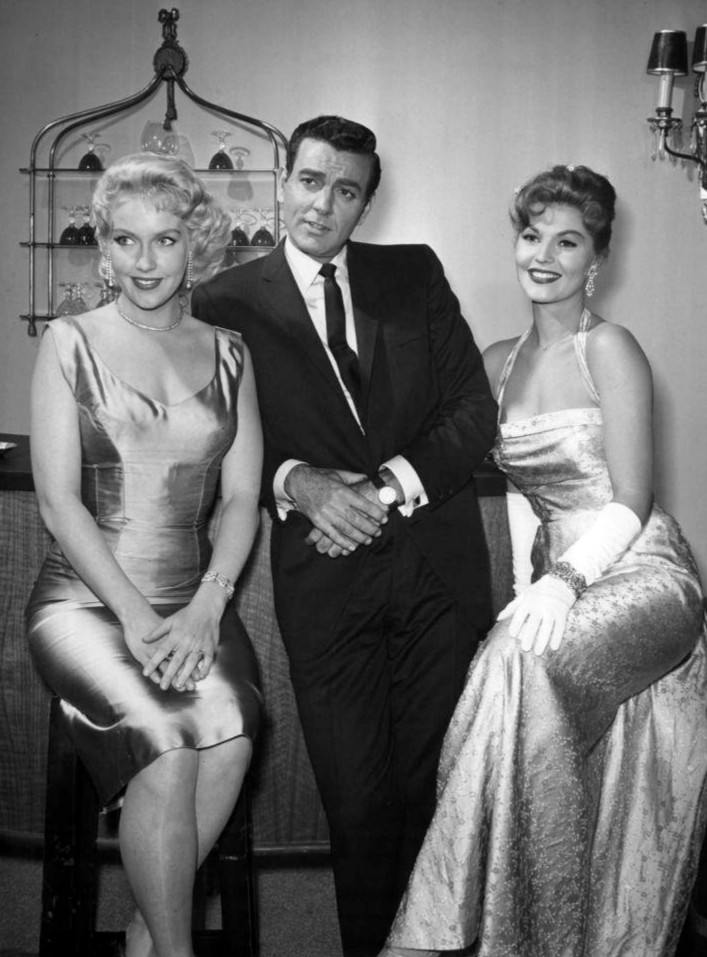 Photo of Leigh Snowden (left) and Claire Kelly with Mike Connors, the star of the short-lived television program Tightrope. The program was very popular but a disagreement between the network and the show's sponsor led to its demise. CBS wanted to schedule the program in a later time slot; the sponsor didn't agree. When the network said it intended to move the show to the later hour without the sponsor's consent, the sponsor backed out of the program.